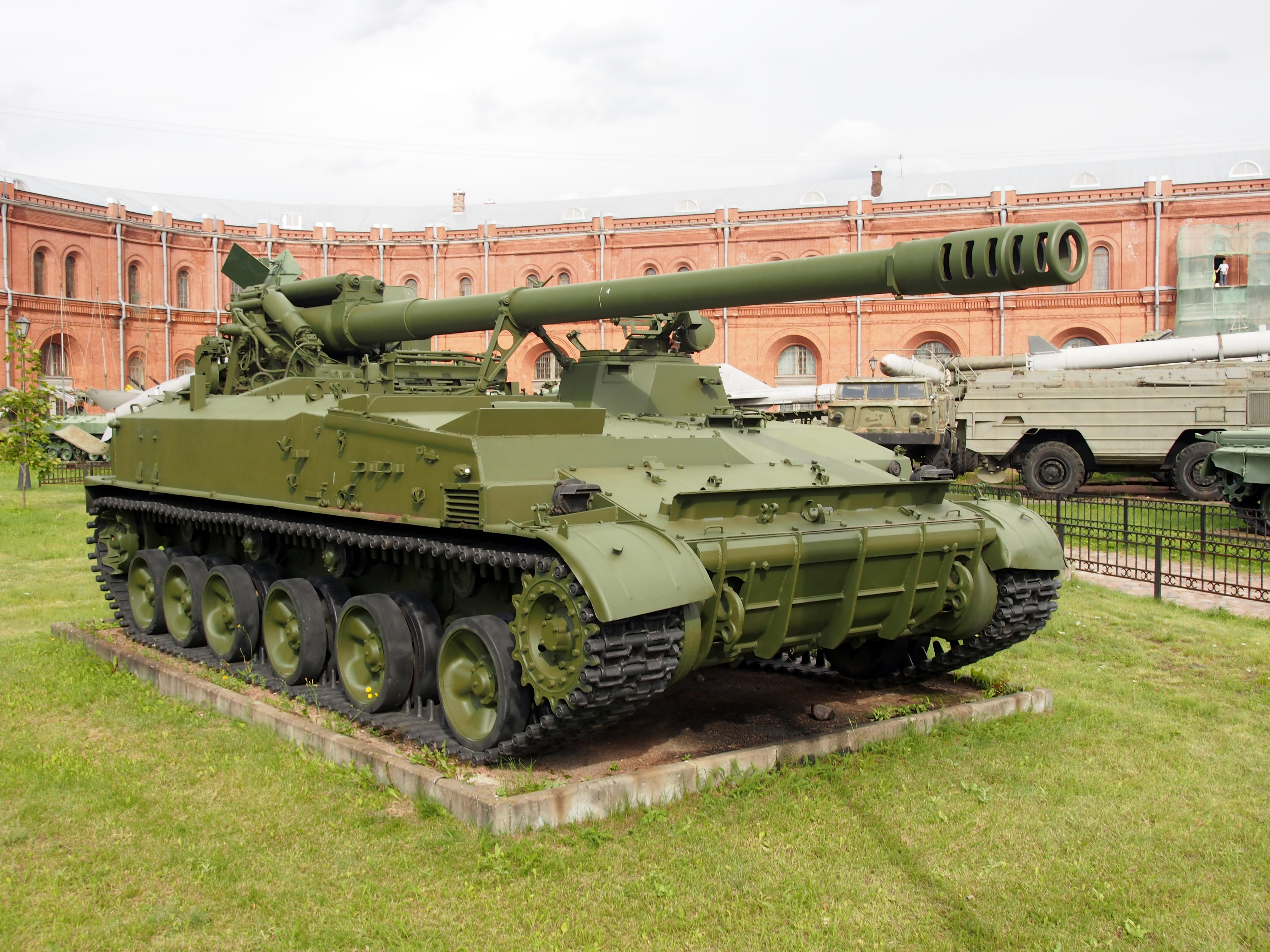 Photographed at the Military-historical Museum of Artillery, Engineer and Signal Corps, Saint Petersburg.